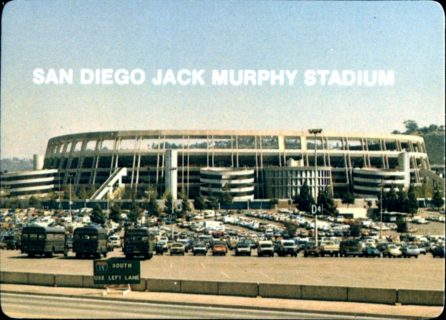 The checklist card of the 1984 Mother's Cookies San Diego Padres trading cards set. A photograph depicting the exterior of San Diego Jacky Murphy Stadium appears on the front of the card and a checklist of all 28 of the trading cards in the set appears on the back. The card is numbered #28 in the set.